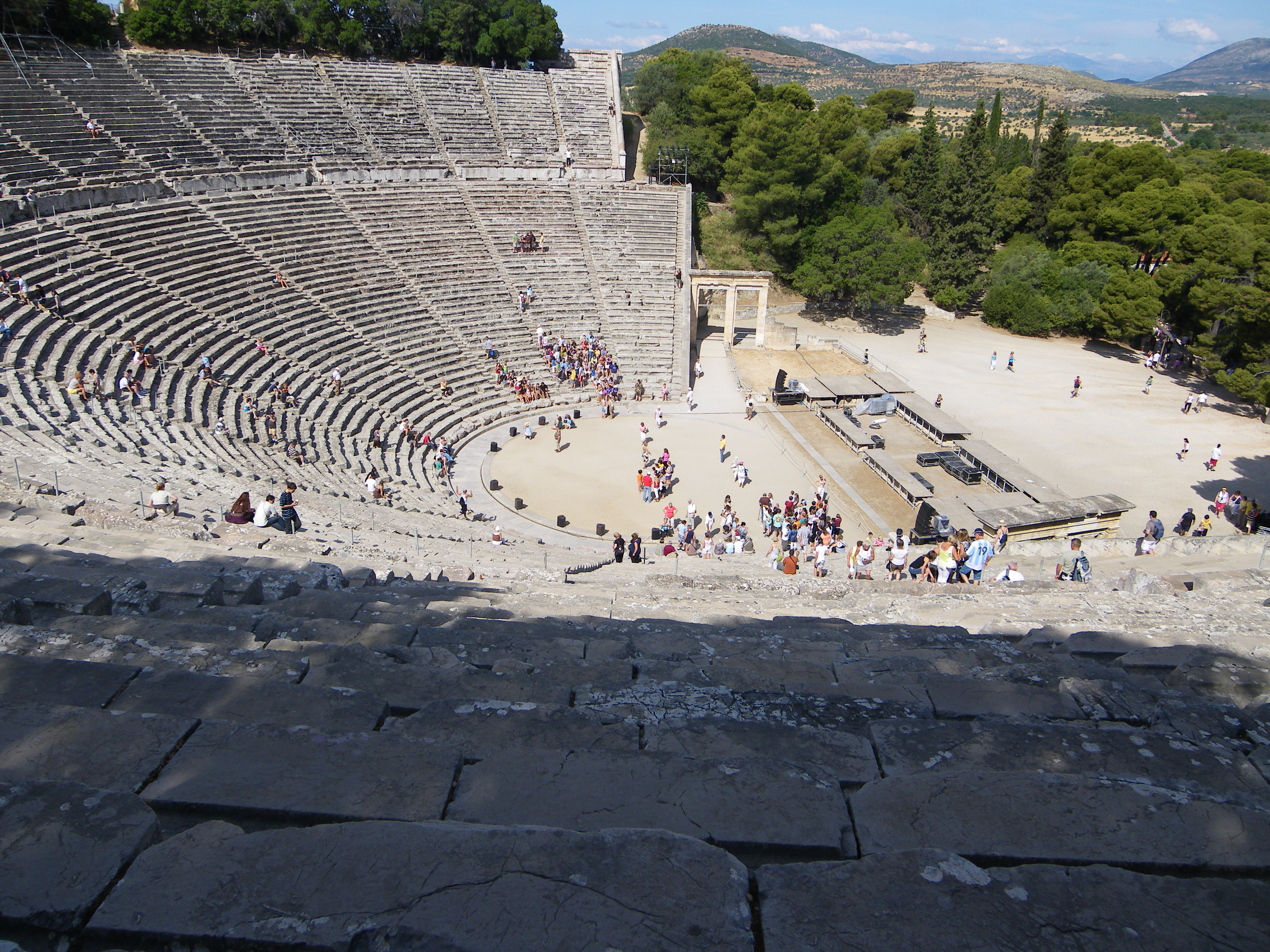 Ancient Theater of Asclepius Epidaurus reception angle 2«Αρχαίο θέατρο Ασκληπιείου Επιδαύρου»